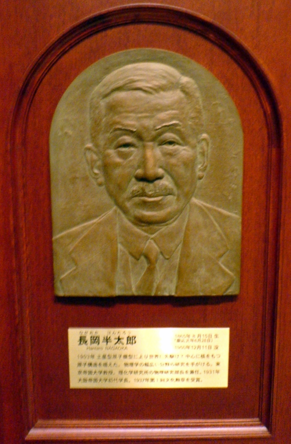 relief plastic of Hantaro Nagaoka in Scince Museum in Tokyo